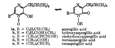 Aspergillic acid analog and structure